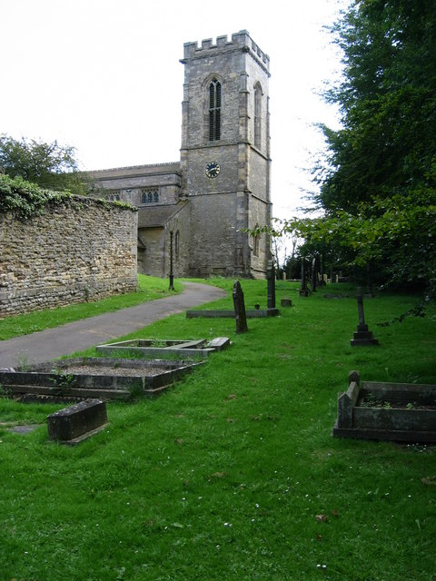 Holy Cross parish church (NOT All Saints!), Burley-on-the-Hill, Rutland, England